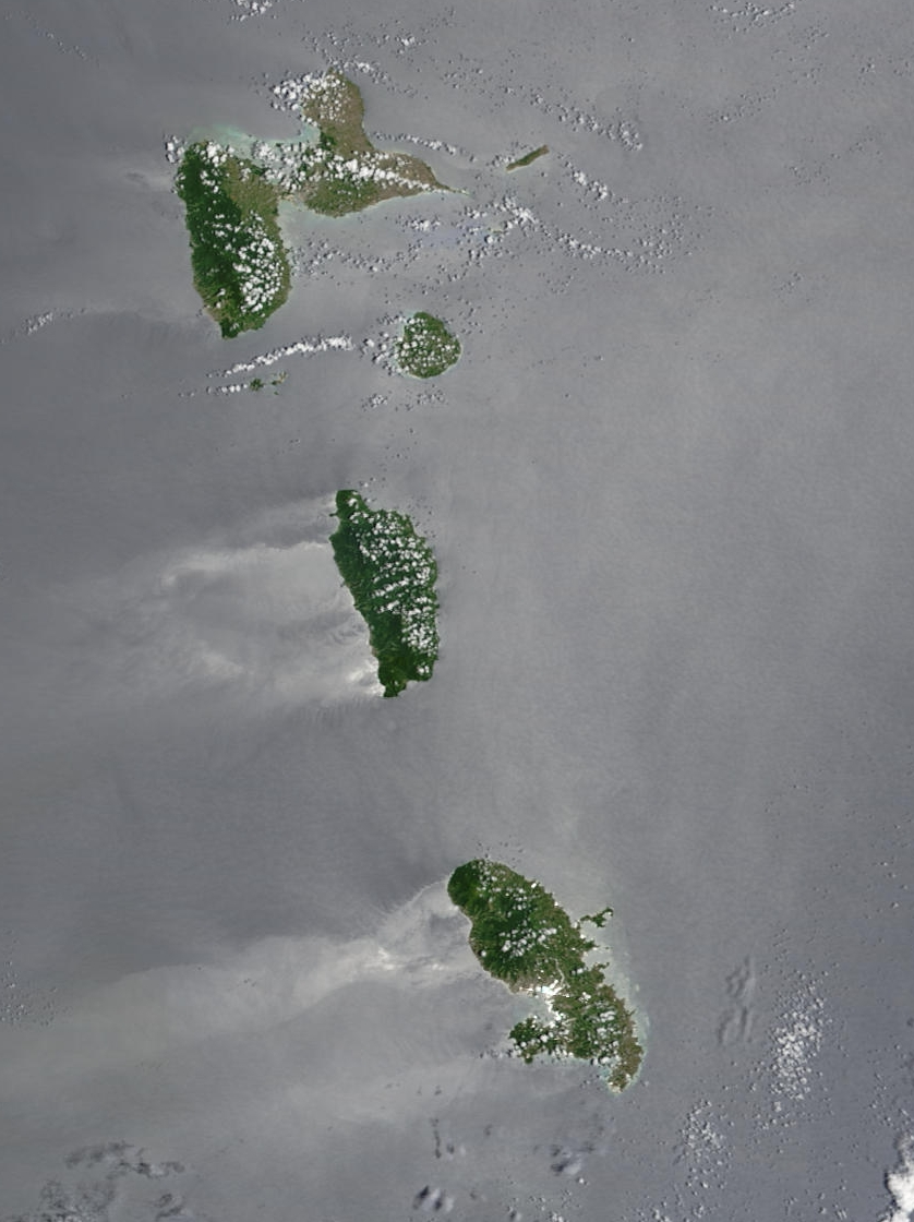 Dominica island, an independent republic state island, between Guadeloupe and Martinique, 2 oversea departments of the French Republic